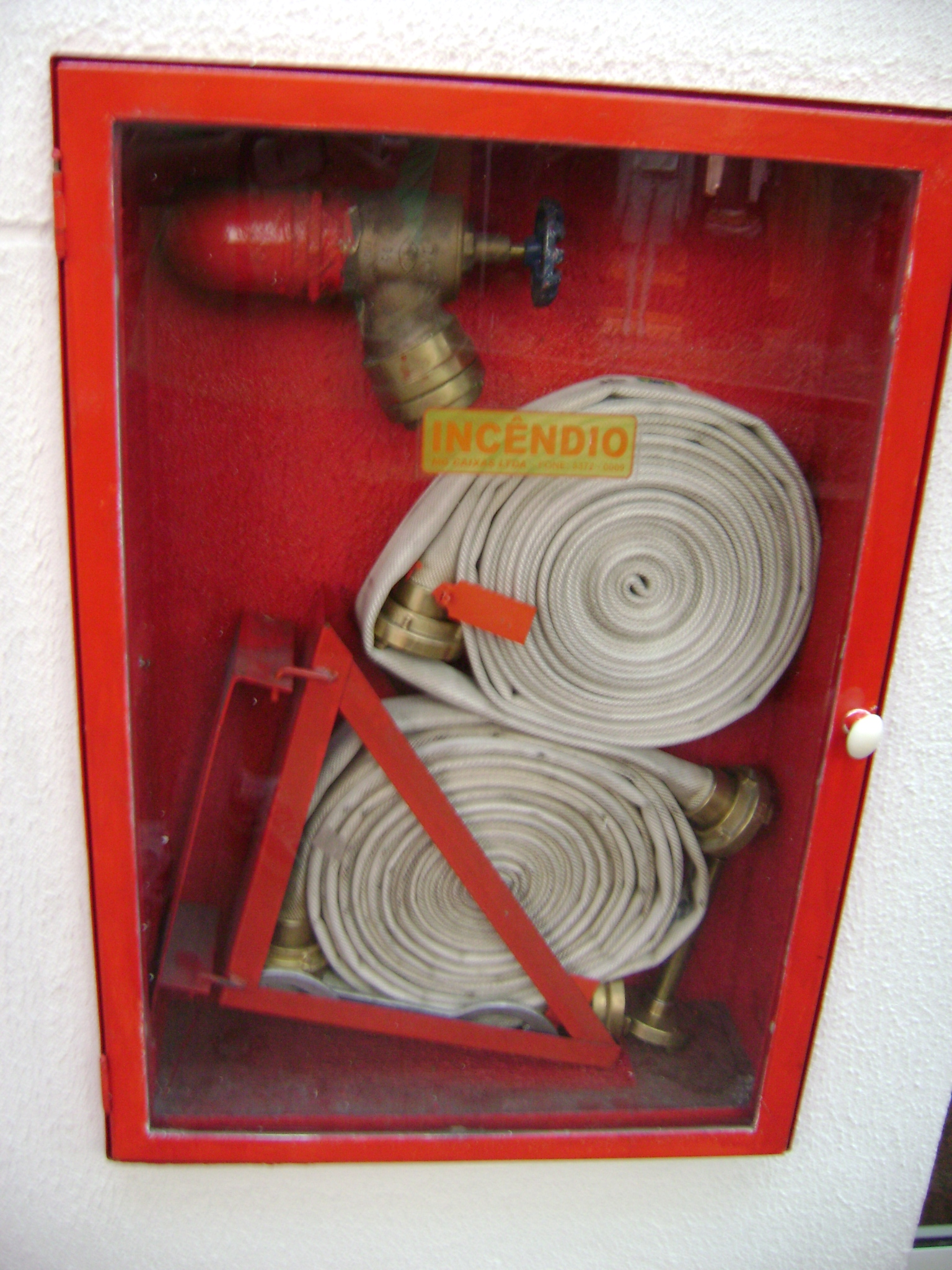 Fire hose at the mall Pátio Savassi, in Belo Horizonte.